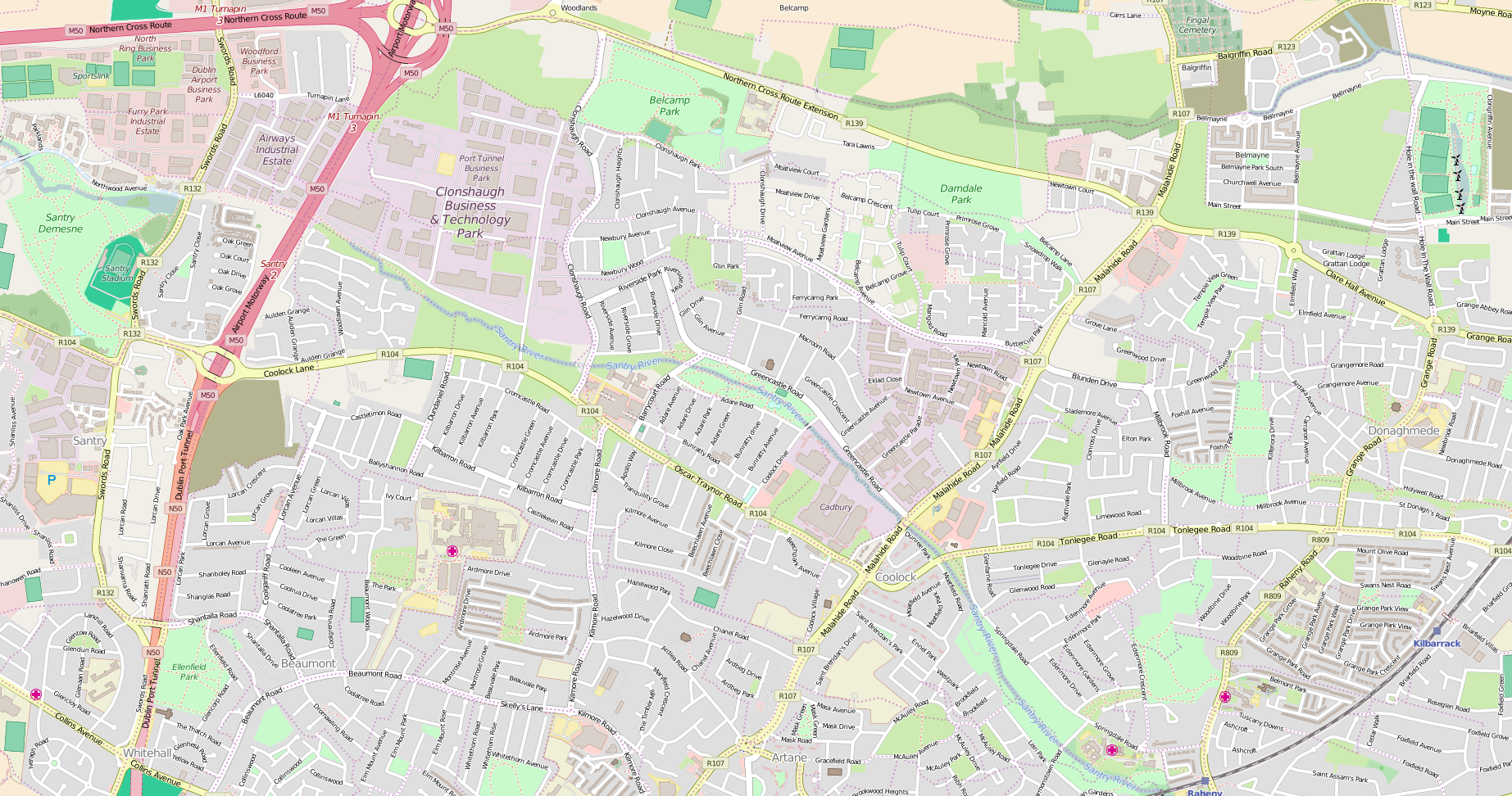 Exported map from OpenStreetMap